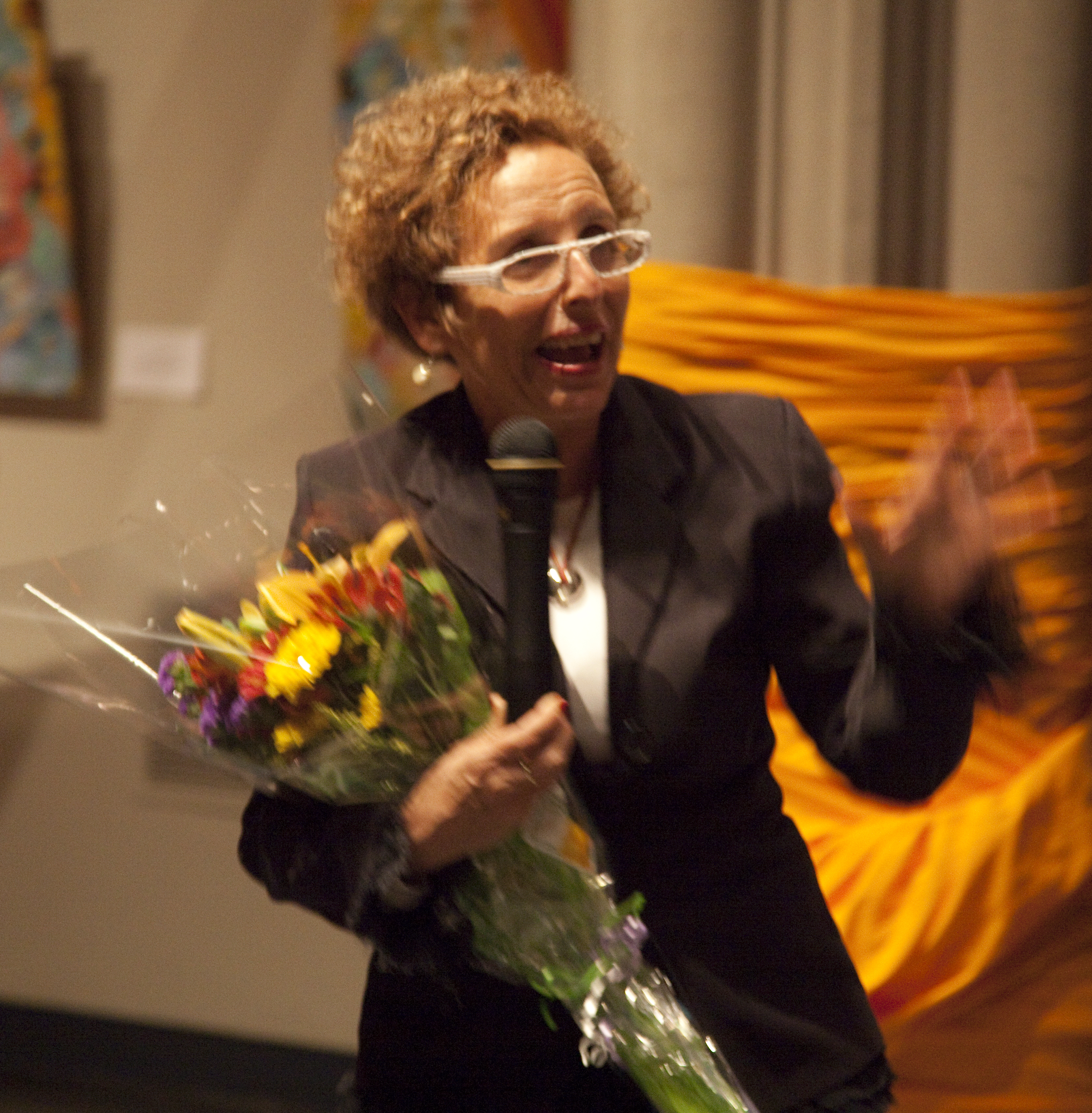 Campaign to Restore Housing Rights - March 29, 2011 Community members participating in New York City Town Hall meeting with UN Special Rapporteur on the Right to Adequate Housing Raquel Rolnik